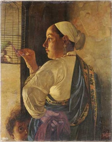 Feeding the Parrot by Pestonji Bomanji (1851-1938) Bombay School, Oil on canvas, 1882, 76.5 x 61 cm, Chhatrapati Shivaji Maharaj Vastu Sangrahalaya